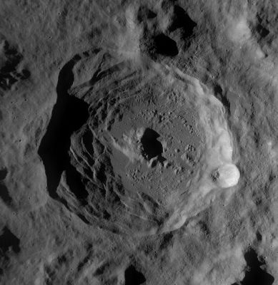 Lowell lunar crater LROC image WAC No. M118166068ME